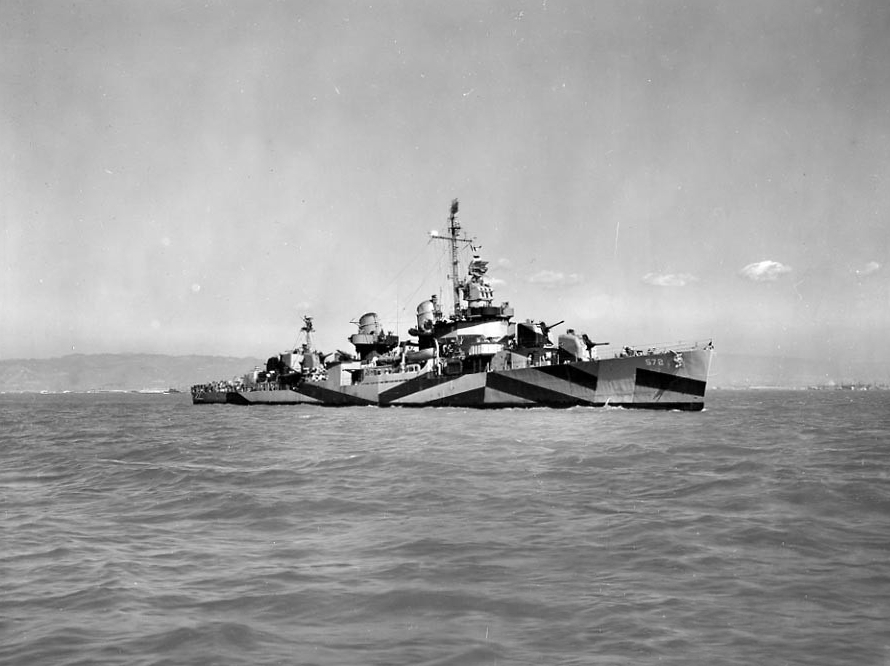 The U.S. Navy destroyer USS Dyson (DD-572) underway off the Mare Island Naval Shipyard, California (USA), on 30 September 1944. She is painted in Camouflage Measure 31, Design 16D.